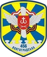 Shoulder sleeve insignia of the Ukrainian Air Force 456th Transport Aviation Brigade